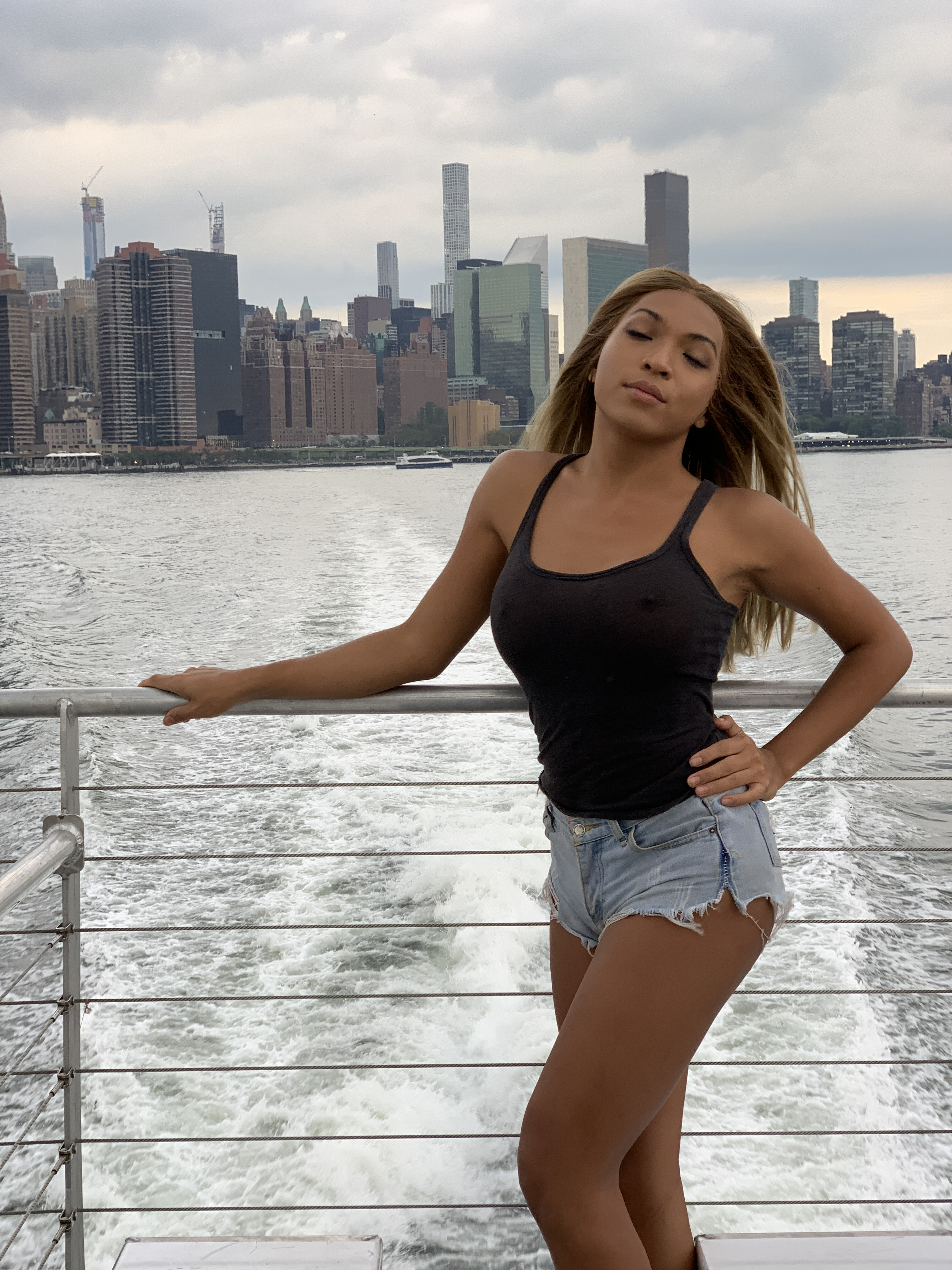 Angele Anang in New York